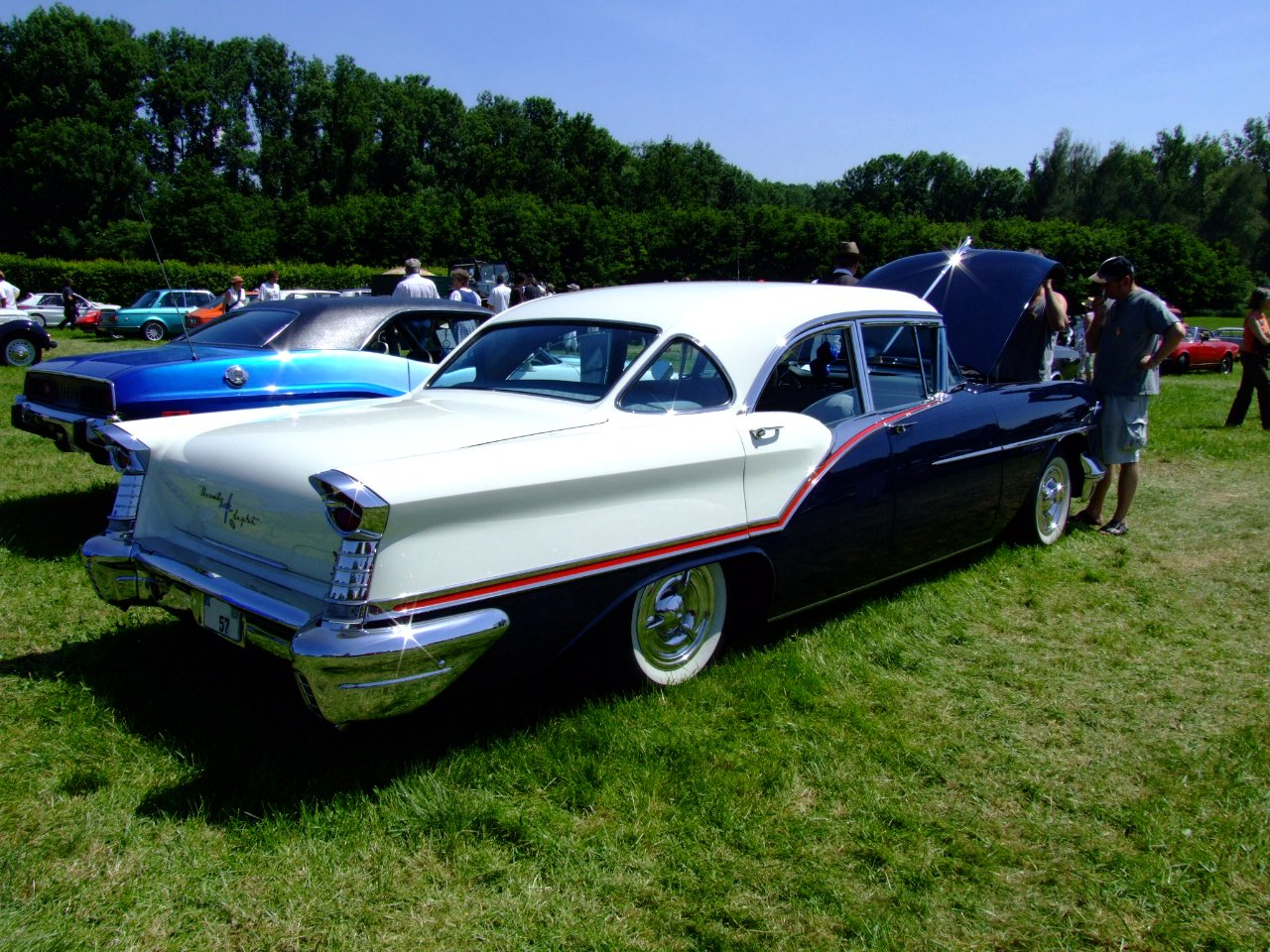 Oldsmobile NinetyEight 1957